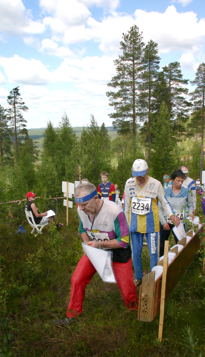 Kainuu Orienteering Week Start